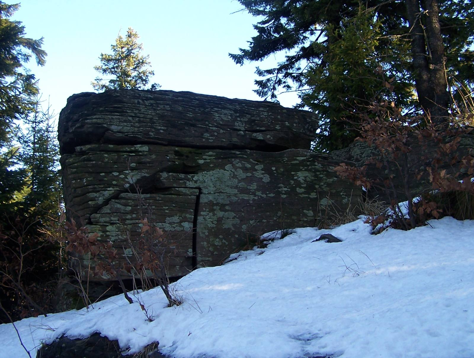 Rouge's Table near the top of Mogielica (Beskid Wyspowy)